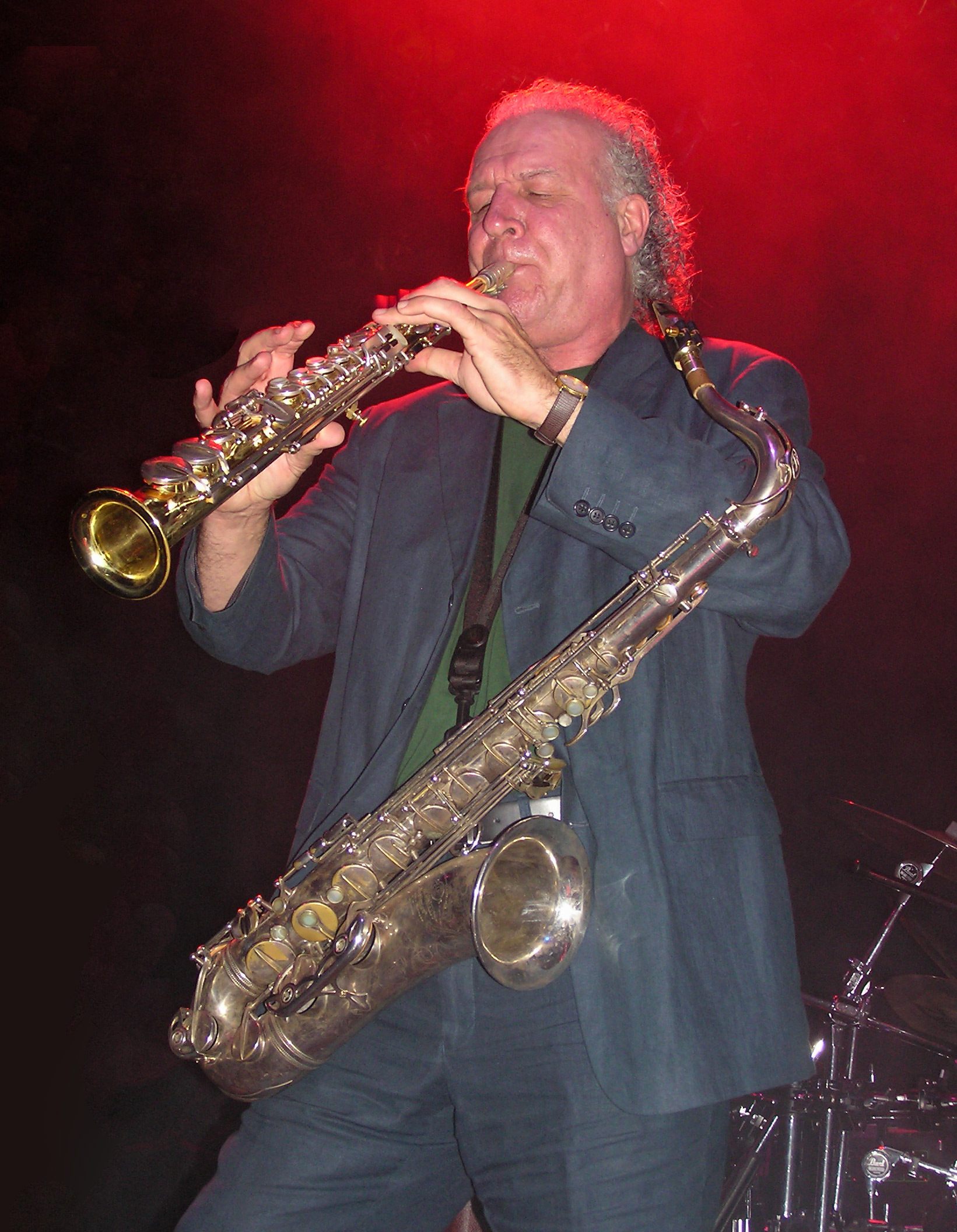 Keith Gemmell Saxophone Player with the rock band 'Audience' in 2004